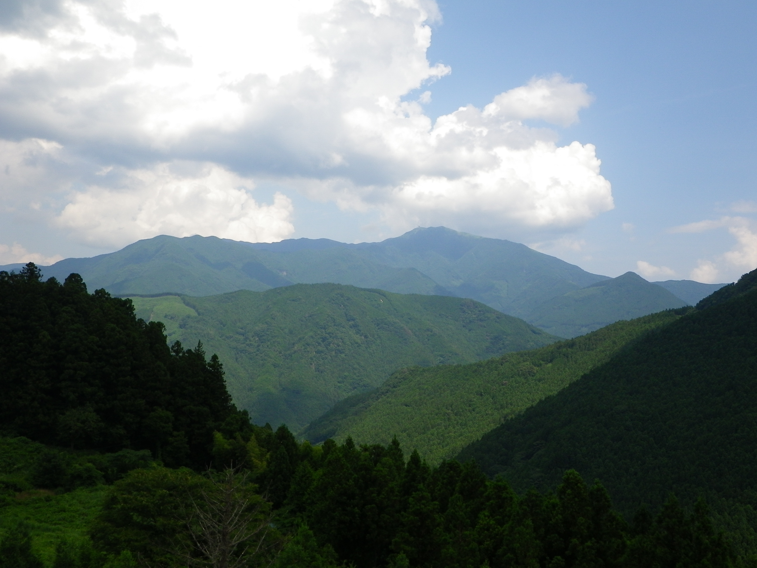 Mount Nakatsumyojin as seen from the east.